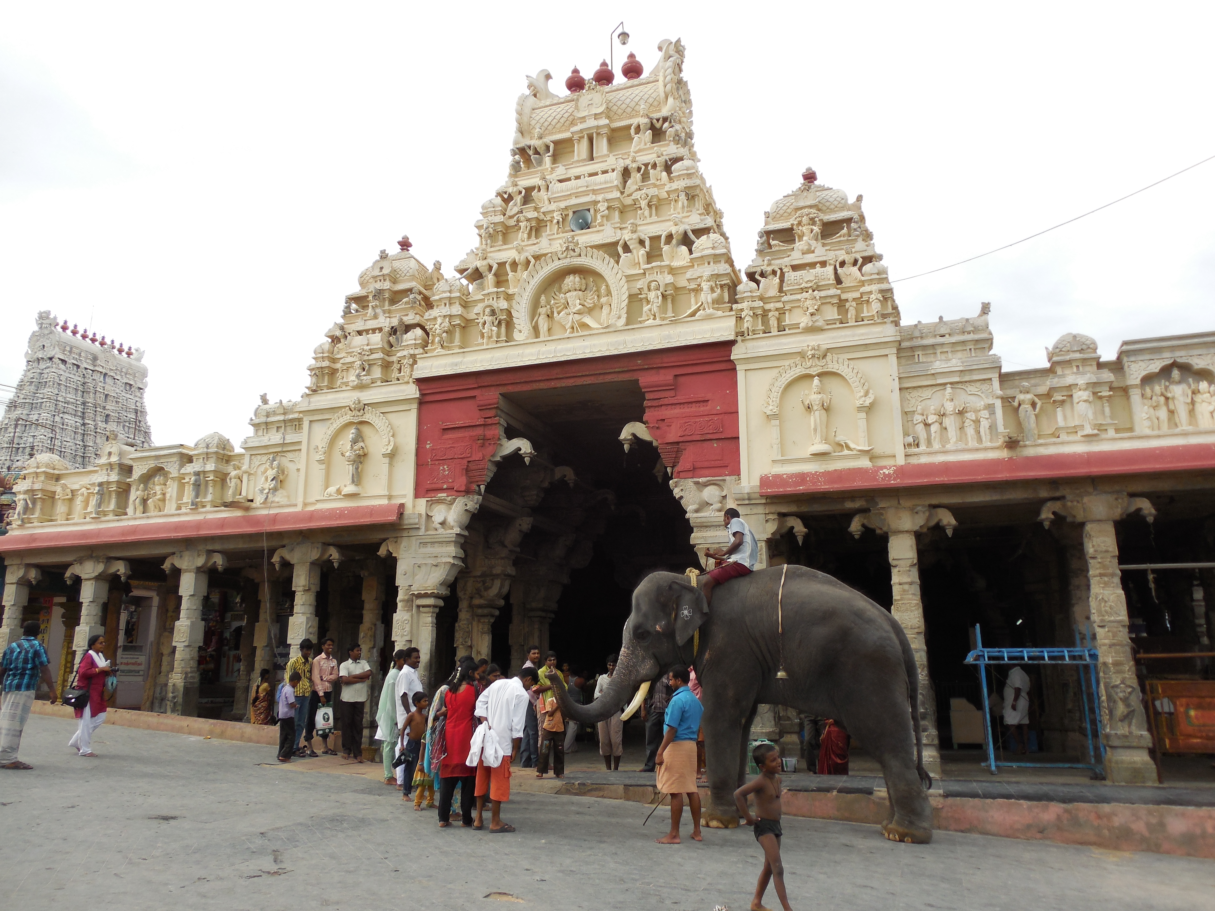 The temple elephant of Thiruchendur Murugan Temple.